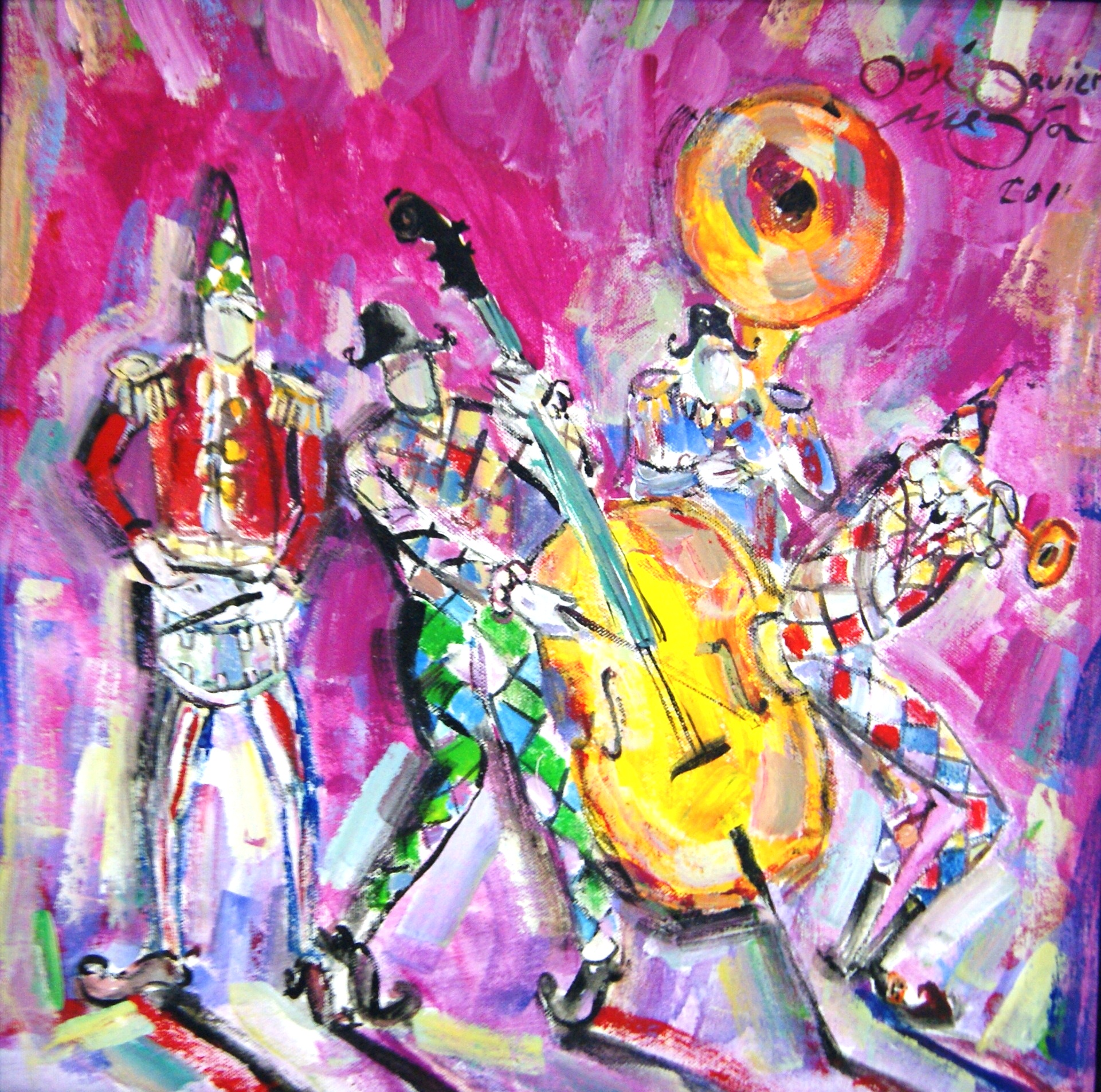 Tomada con una camara SONY DSC alfa 210 This work has been released into the public domain by its author, yesvari85. This applies worldwide. In some countries this may not be legally possible; if so: yesvari85 grants anyone the right to use this work for any purpose, without any conditions, unless such conditions are required by law.